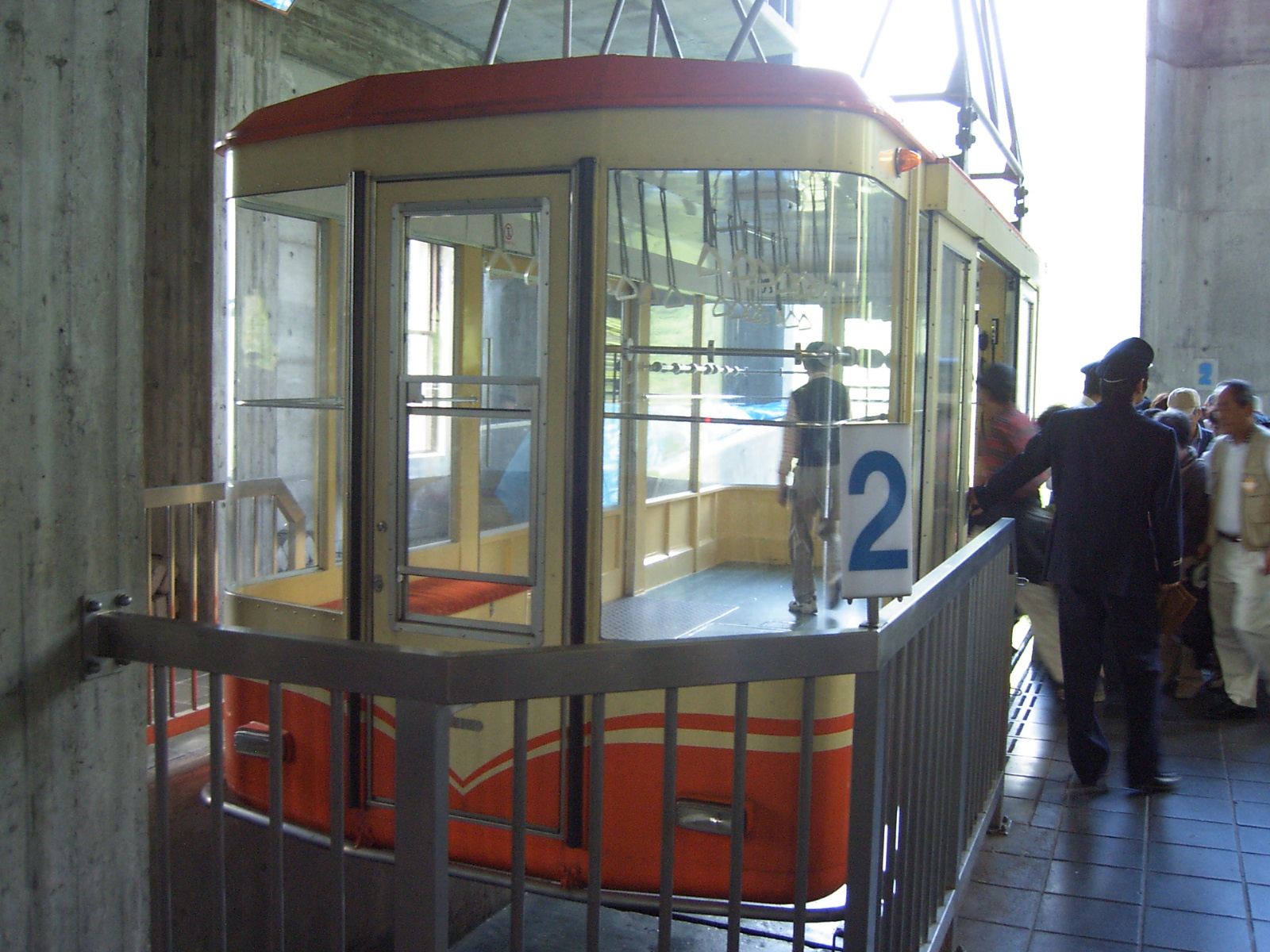 Carriage of Tateyama Ropeway